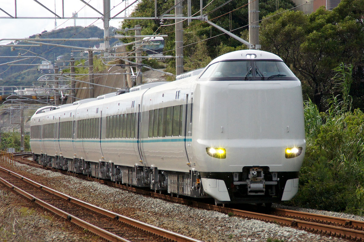 JR West Kuroshio-liveried 287 series EMU undergoing test running on the Kinokuni Line